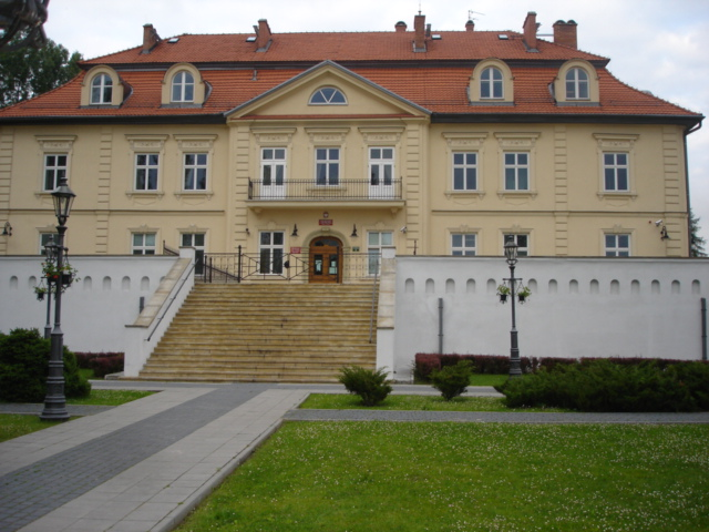 Konopkowie's palace